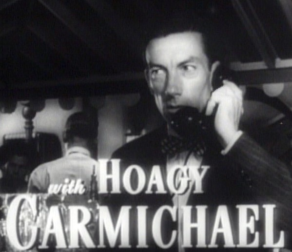 Cropped screenshot of Hoagy Carmichael from the trailer for the film The Best Years of Our Lives.